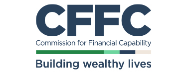 The official CFFC logo